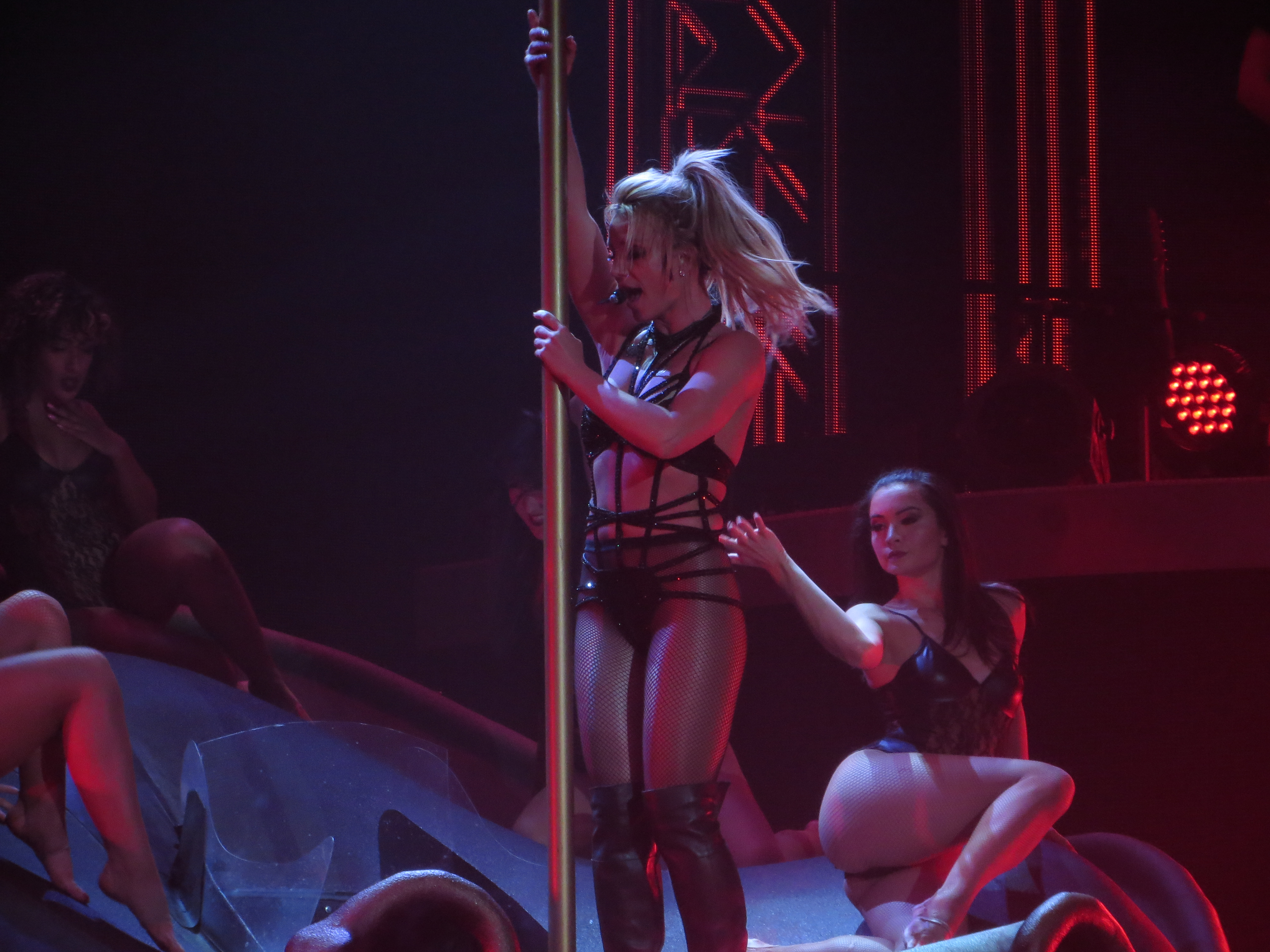 Britney Spears 5